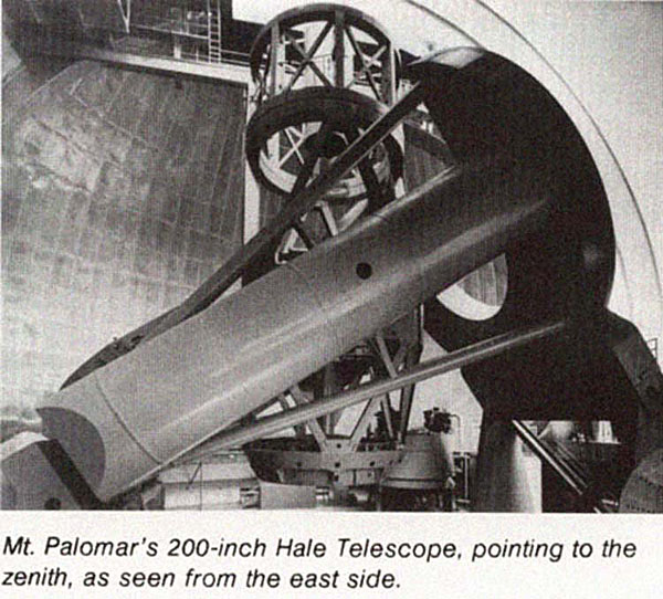 The 200 inch telescope on Mount Palomar. CREDIT: NASA COPYRIGHT: “NASA images generally are not copyrighted. You may use NASA imagery, video and audio material for educational or informational purposes, including photo collections, textbooks, public exhibits and Internet Web pages.” PREPARED BY Adrian Pingstone in December 2003.